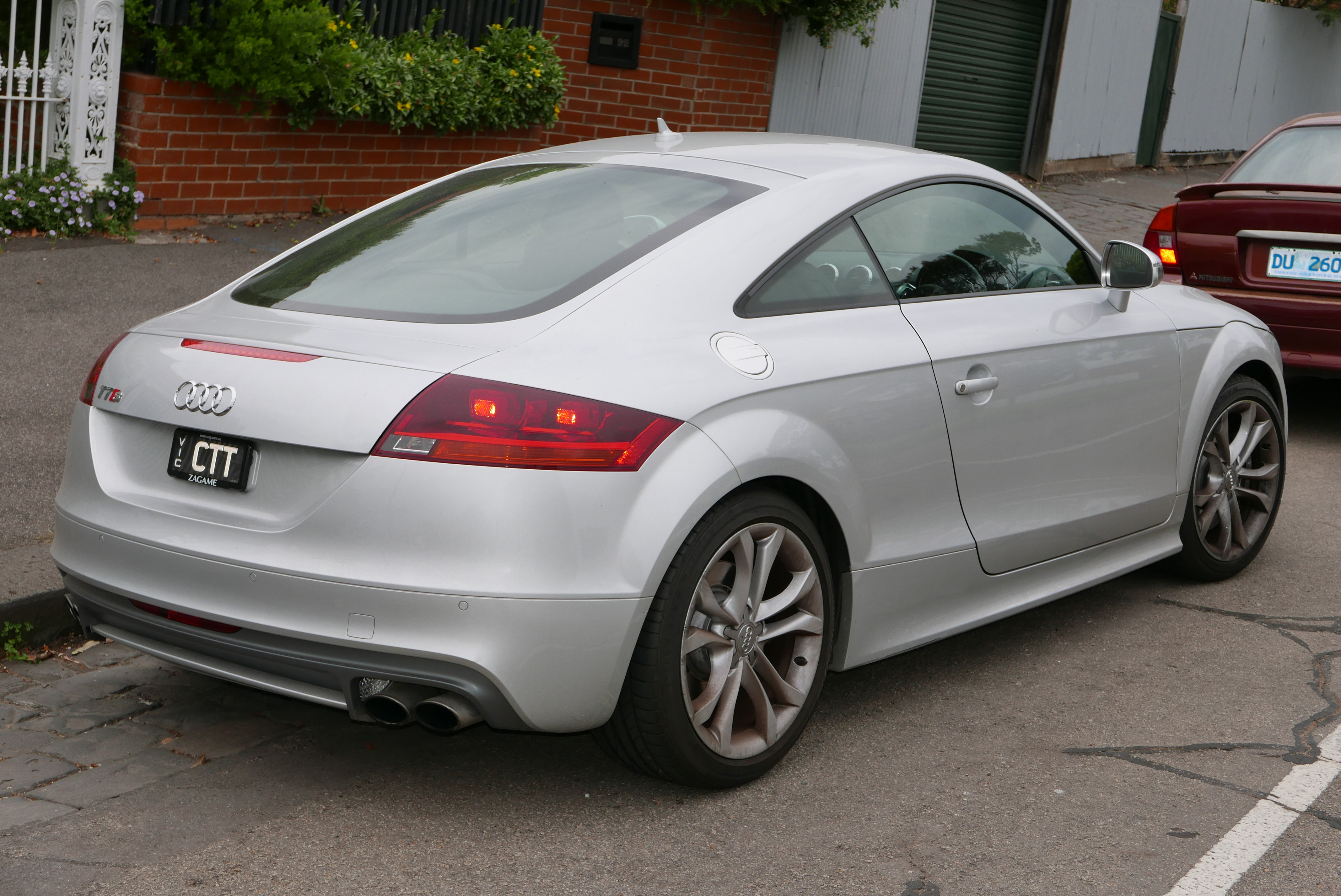 2014 Audi TTS (8J MY14) quattro coupe. Photographed in Princes Hill, Victoria, Australia. Vehicle registration enquiry resultsJurisdictionVictoriaRegistrationCTTChassis codeTRUZZZ8J4E1018412Engine codeCDL102260Compliance date2014-07Year of manufacture2014